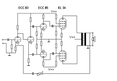 Pushpull tube amplifier with EL34 output tubes. The front end copies the Williamson design, however, the output tubes are pentode-connected (not triode-connected as in the Williamson).